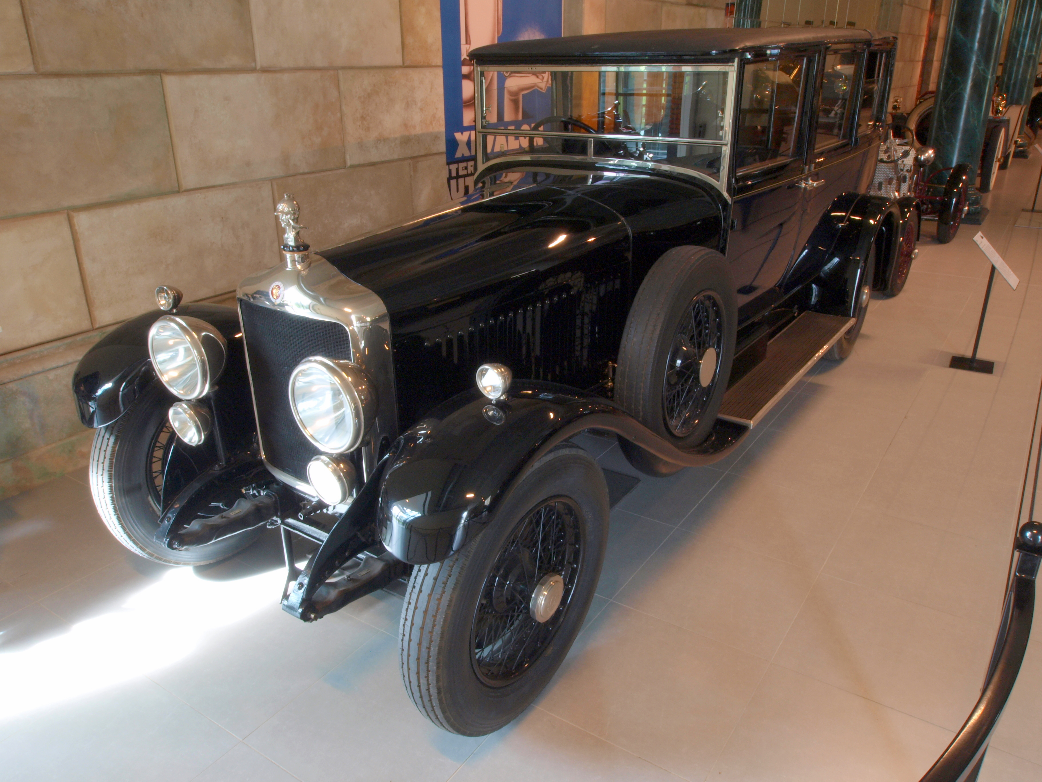 Photographed at the Louwman museum / Louwman Collection, The Netherlands.